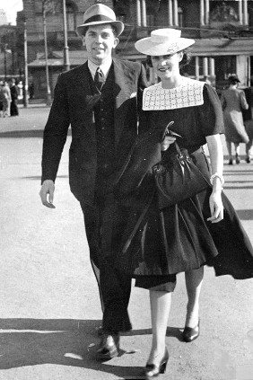 Sydney, NSW. 1941. Len Siffleet and his fiance Clarice Lane at Circular Quay en route for a day at Manly. On 24 October 1943, NX143314 Sergeant (Sgt) L. G (Len) Siffleet, along with his two Ambonese companions, was executed by order of Japanese Vice Admiral Kamada, who was in command of the Japanese fleet at Aitape, for his role as a wireless operator in a commando operation in Japanese occupied New Guinea. Sgt Siffleet was a member of the M Special Unit of the Services Reconnaissance Department (SRD). (Donor C. Mills)